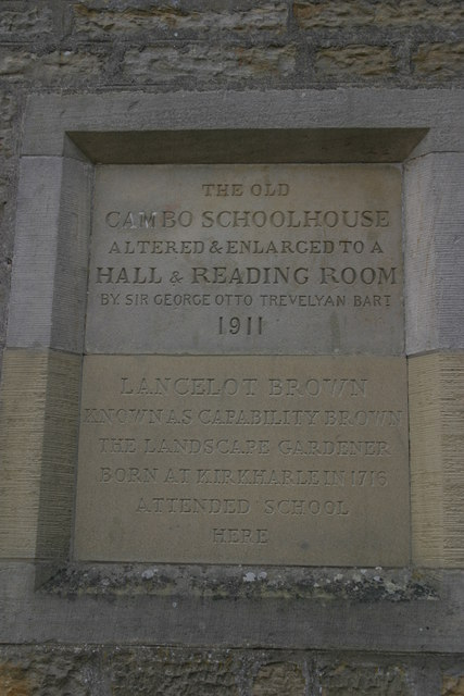 Plaque on the village Hall, Cambo.